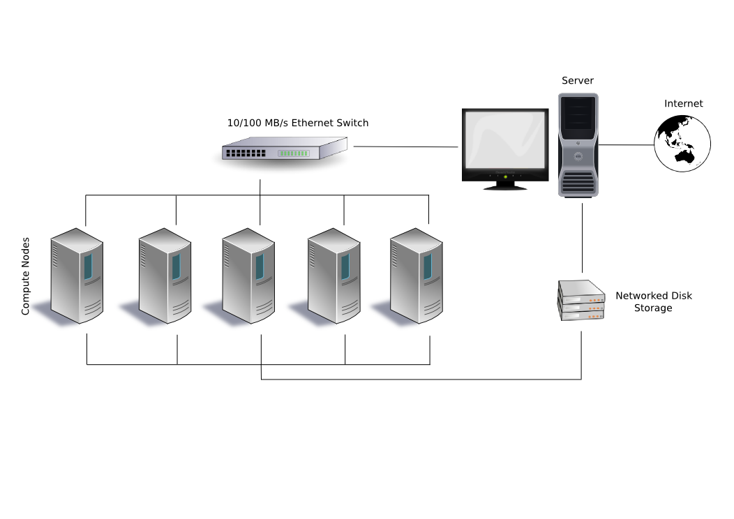 I created this for my research paper for a school project